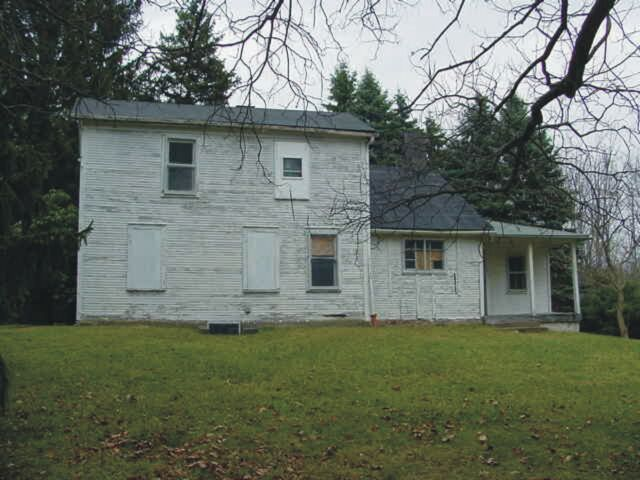 Cofta Farmhouse in Cuyahoga Valley National Park, Ohio, USA